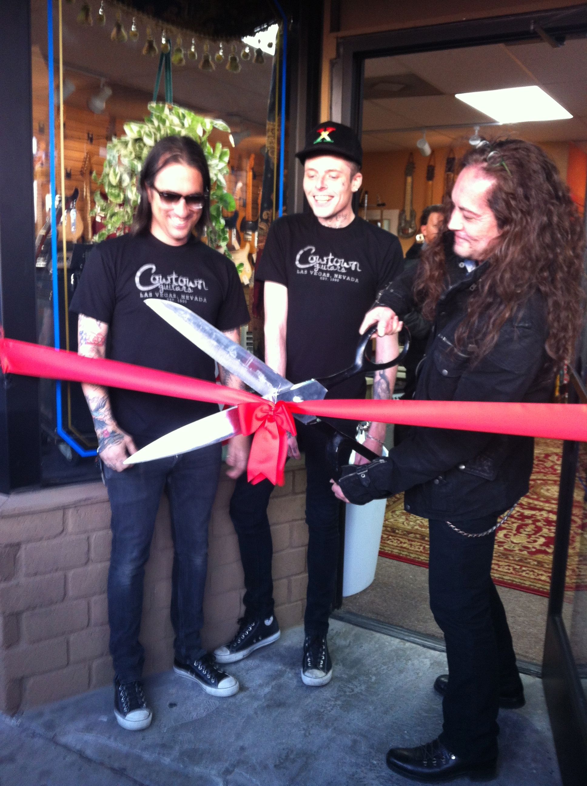 Rock guitarist Jake E. Lee (right) cuts an opening ribbon at Cowtown Guitars in Las Vegas Original caption: "Rock Star cuts ribbon at ceremony"